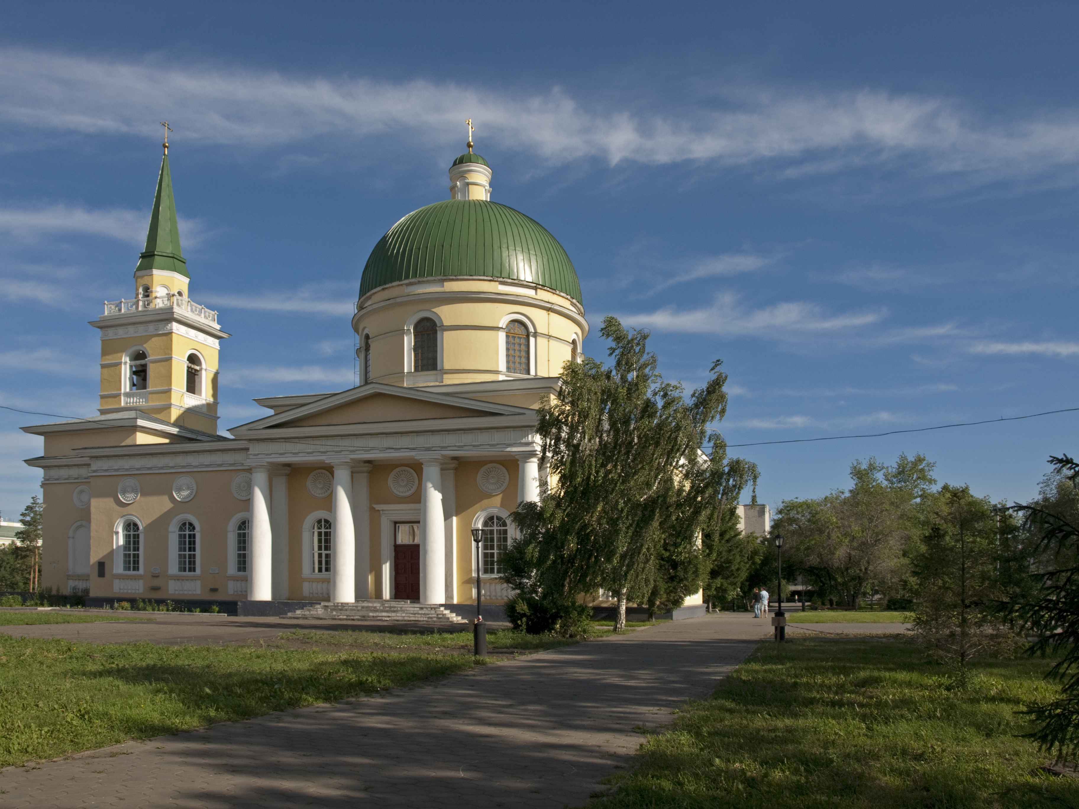 Omsk Nicholas Cossack Cathedral